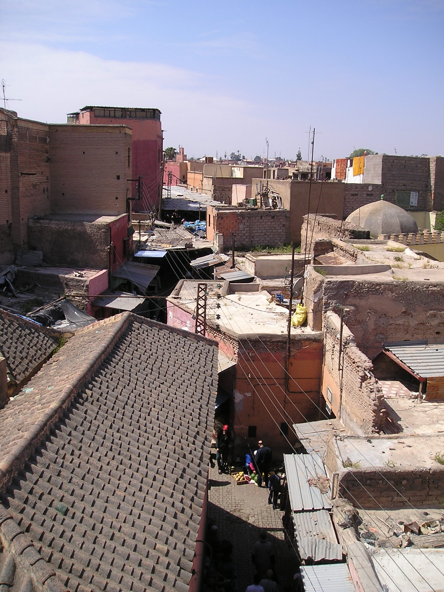 Medina of Marrakech